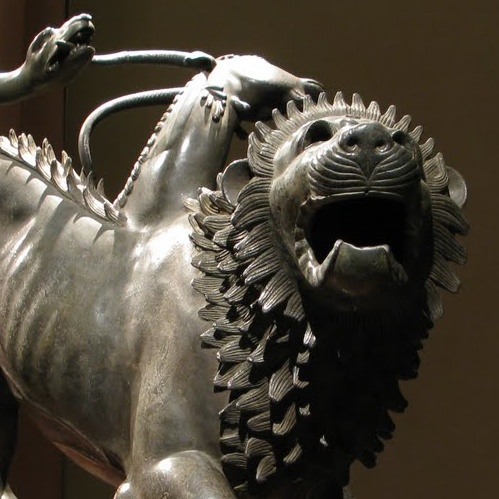 Etruscan bronze statue depicting the legendary monster. It was originally part of a group with Bellerophon and Pegasus. On the right leg is engraved the dedicatory inscription to Tinia.